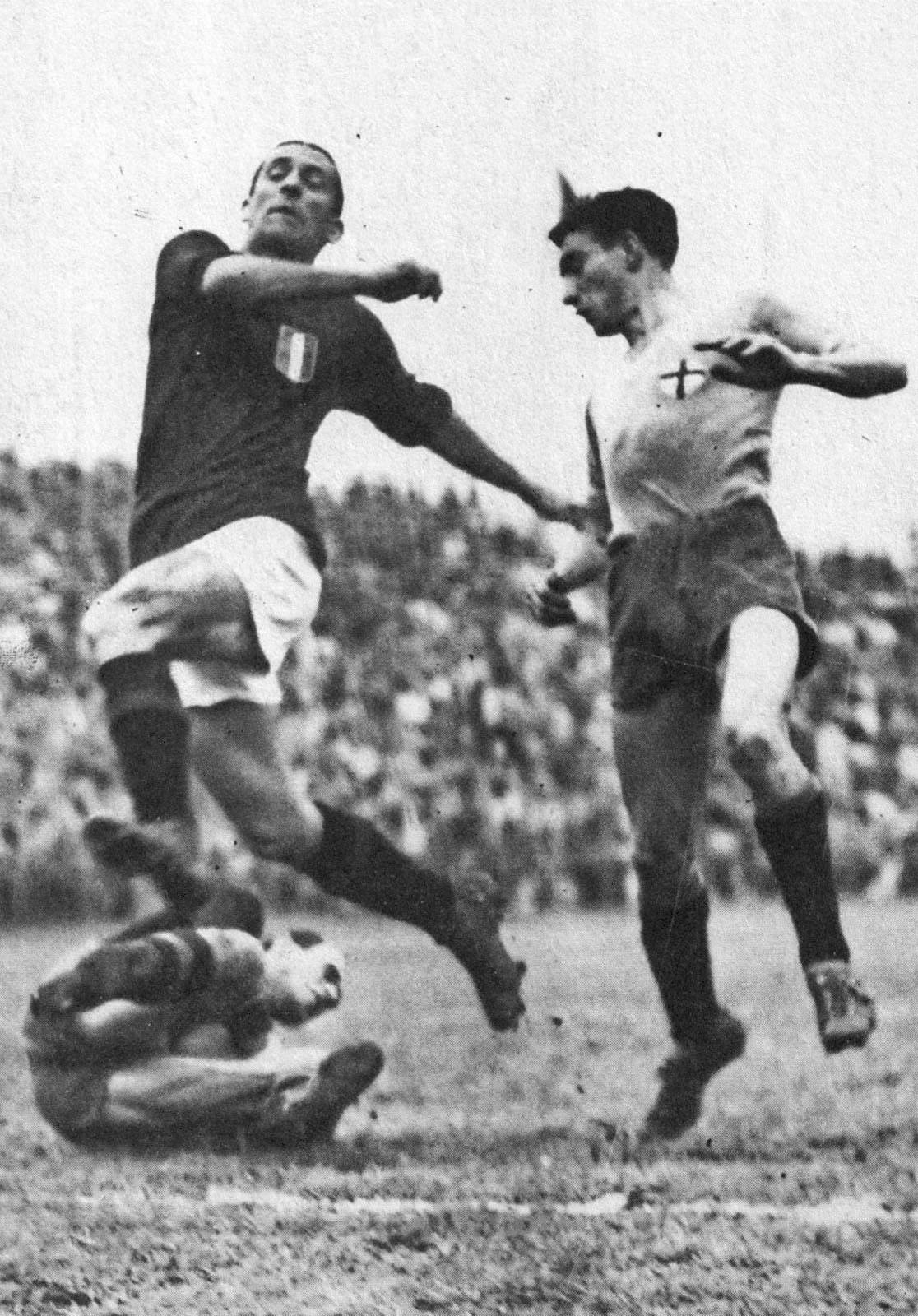 Turin, Filadelfia Stadium, May 2, 1948. A.C. Torino — Alessandria U.S. 10-0, Italy Championship 1947–48 Serie A, 32nd round. Torino's forward Guglielmo Gabetto in action.